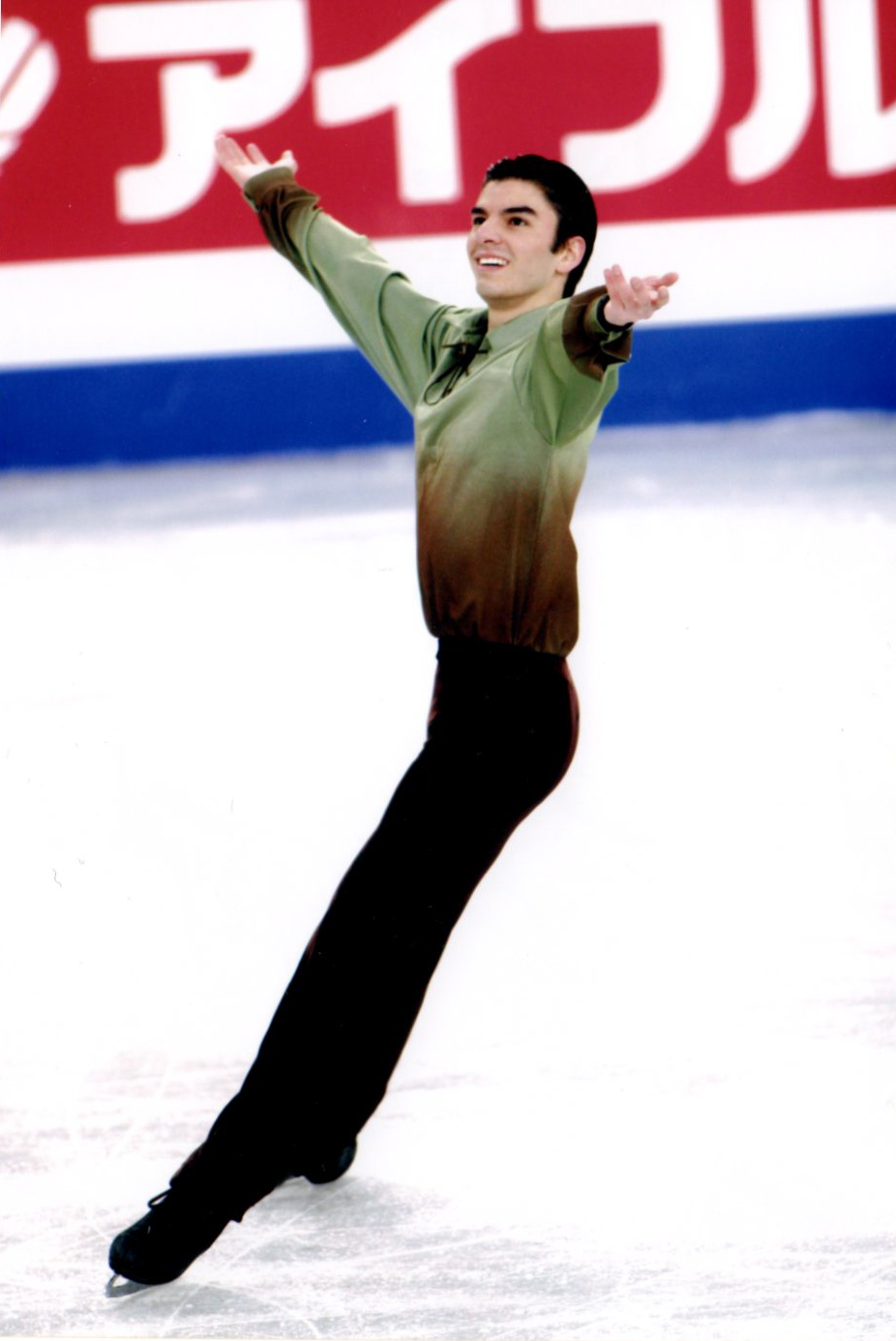 Humberto Contreras Long Program at the 2005 Four Continents Figure Skating Championships.